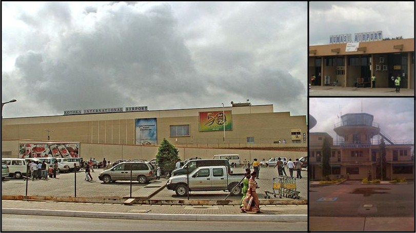 Three Airports in Ghana: 1. Kotoka International Airport in Accra, Ghana. 2. Kumasi International Airport in Kumasi, Ghana. 3. Sekondi-Takoradi Airport in Sekondi-Takoradi, Ghana.